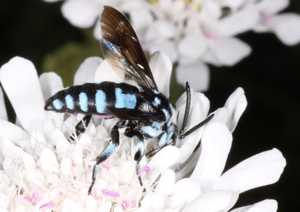 Macro shots at Walter Sisulu Botanical Garden